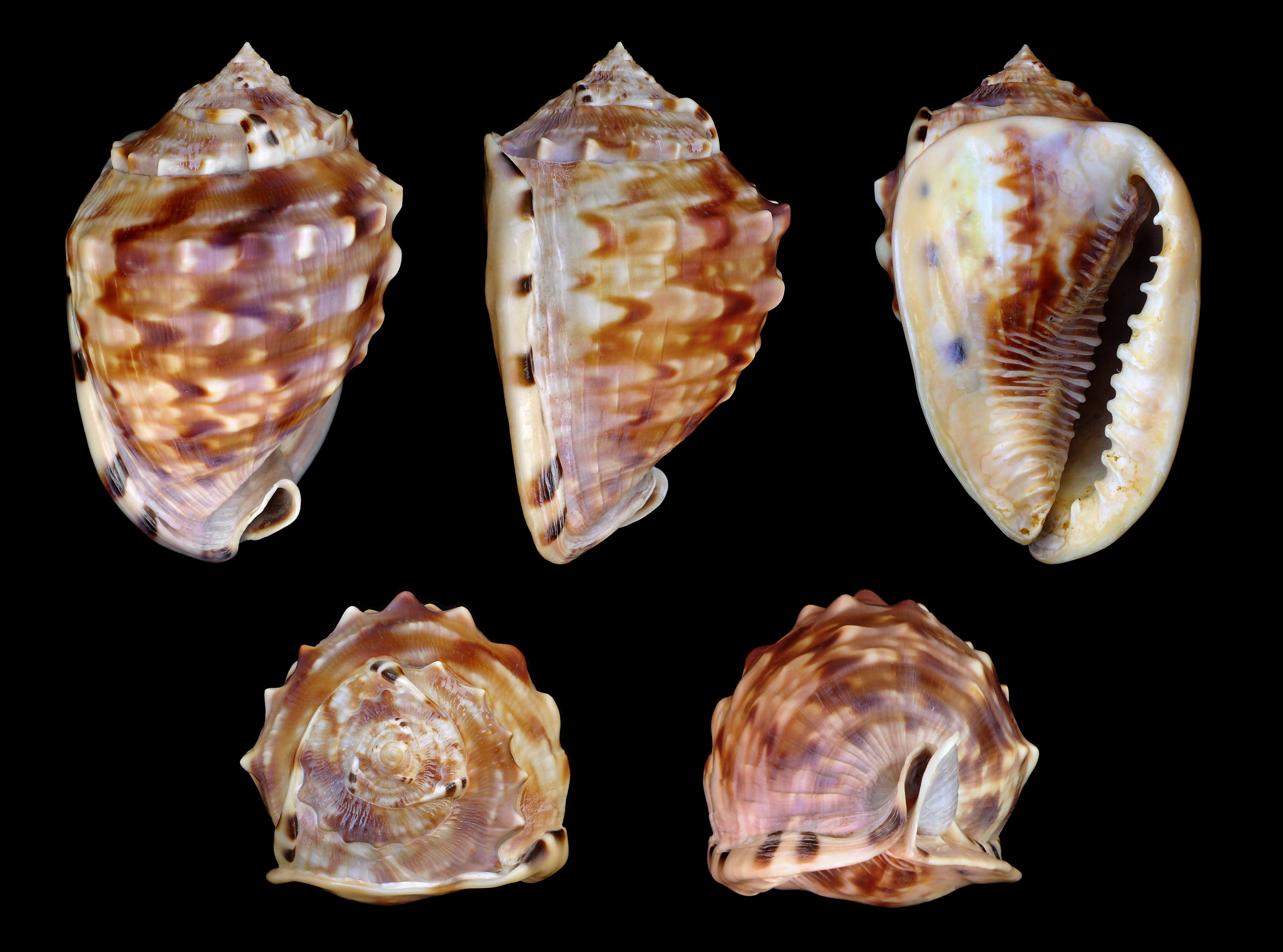 Flame Helmet; Length 13 cm; Originating from the Caribbean; Shell of own collection, therefore not geocoded. Dorsal, lateral (right side), ventral, back, and front view. This picture consists of 5 single photos. The metadata refer to the dorsal view.